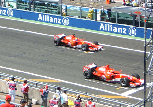 Schumacher and Massa - Start of the French GP 2006